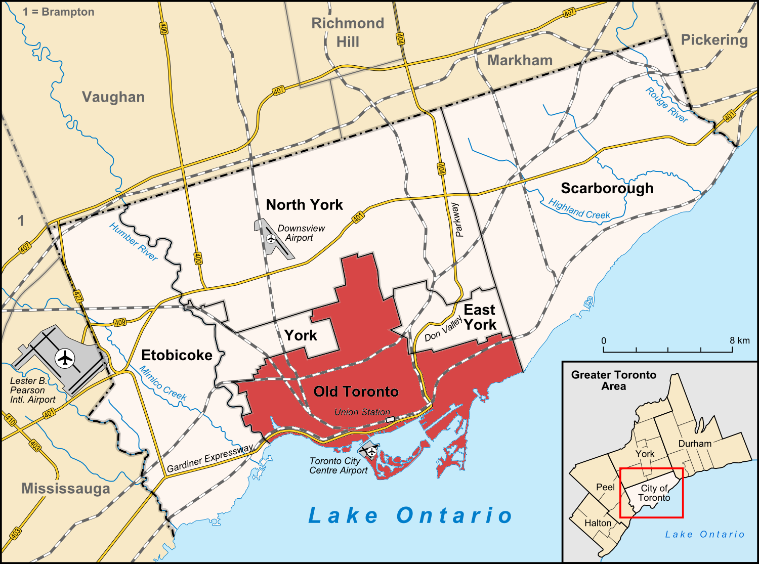 Map of Toronto